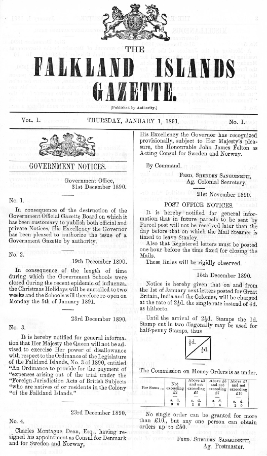 Front page of the first issue of the "Falkland Islands Gazette", 1 January 1891.